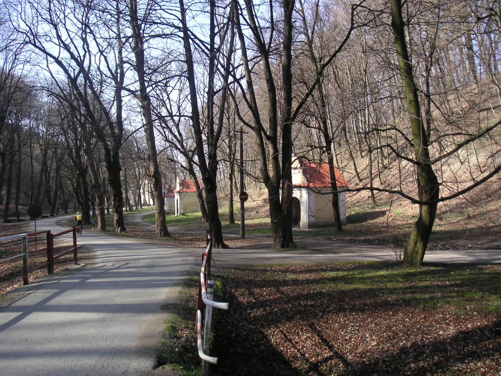 Stations of the Cross at Marianka, Slovakia